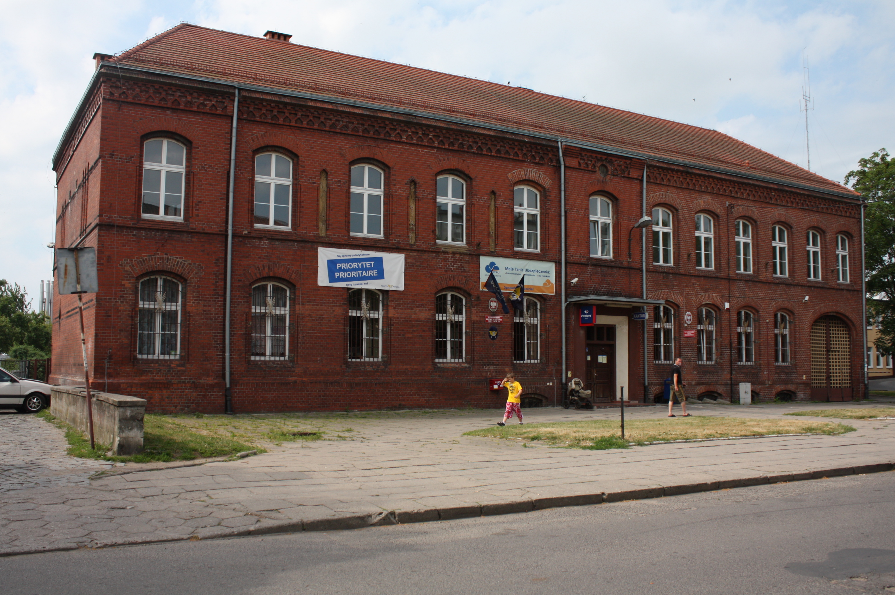 Nowy Dwór Gdański